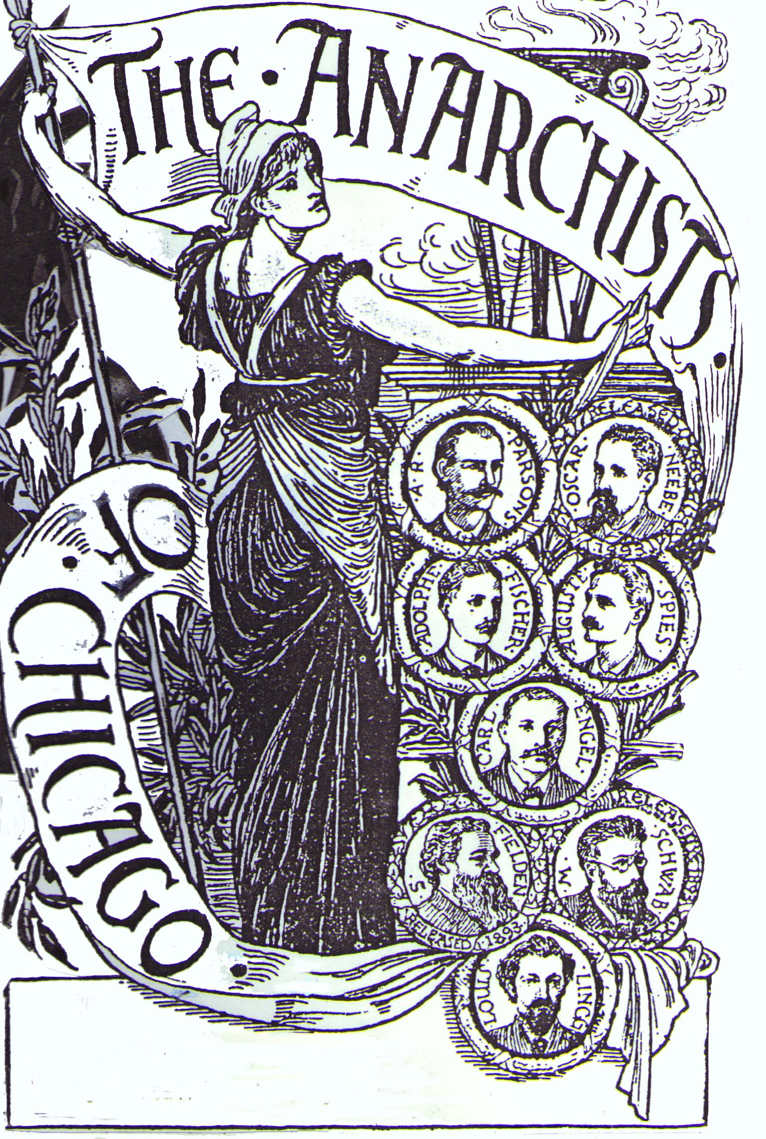 Portraits of the Haymarket Martyrs